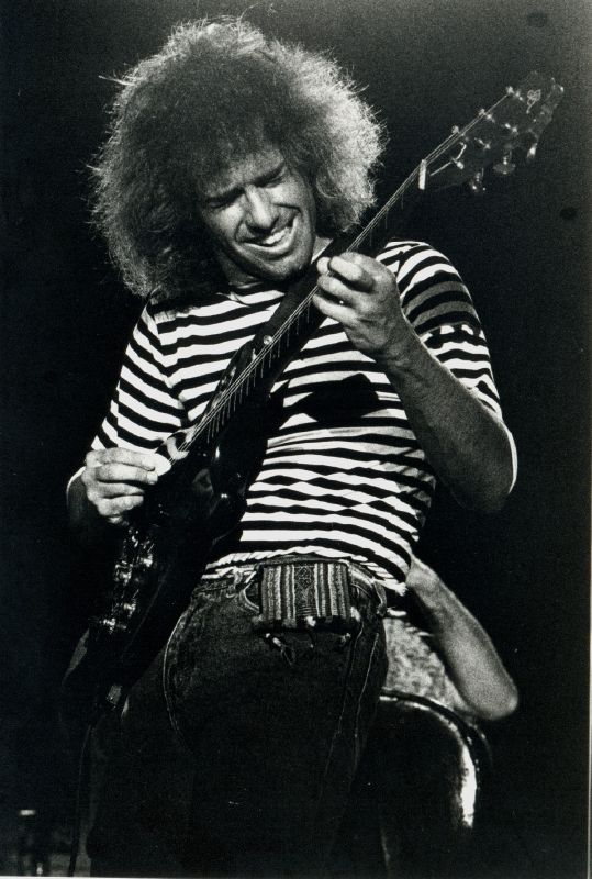 Pat Metheny, Barcelona 2008 03 September 2008 Pat Metheny Group, Poble Espanyol (Av. Marquès de Comillas, 13 08038) Barcelona, Spain